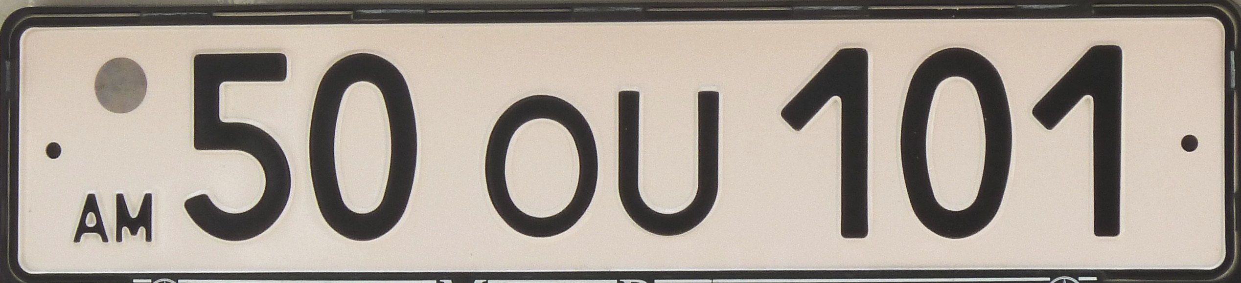 License plate from Armenia